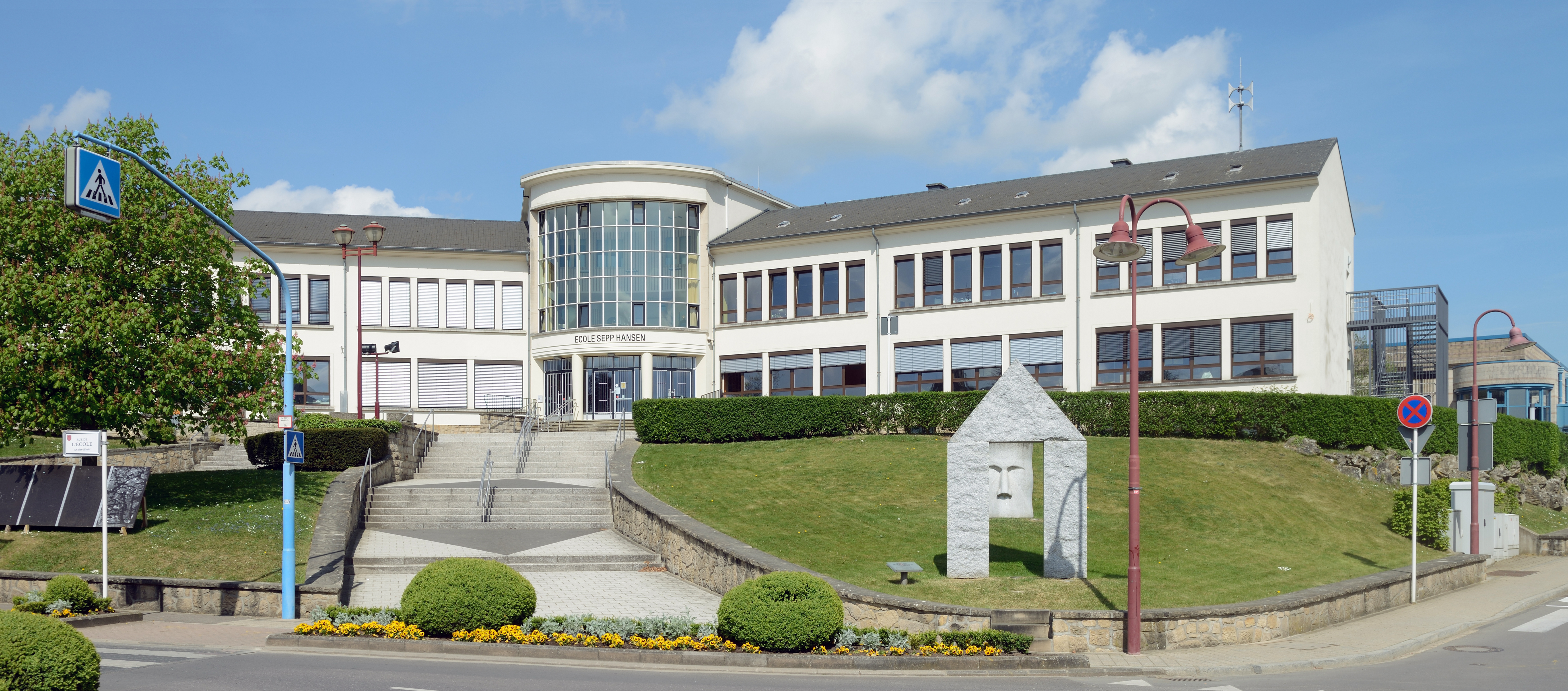 Sepp Hansen School in Steinsel, Luxembourg.